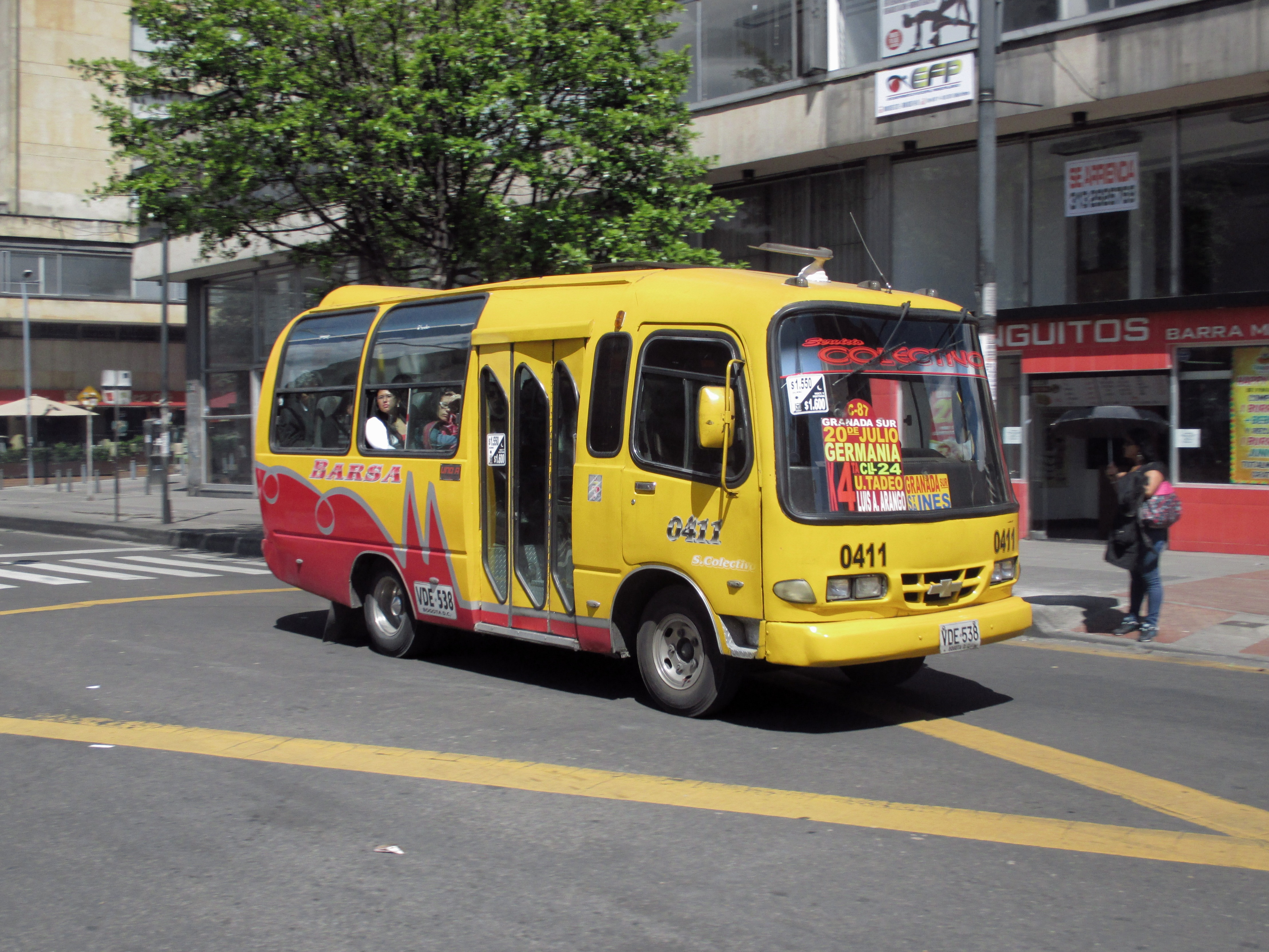 Bogotá